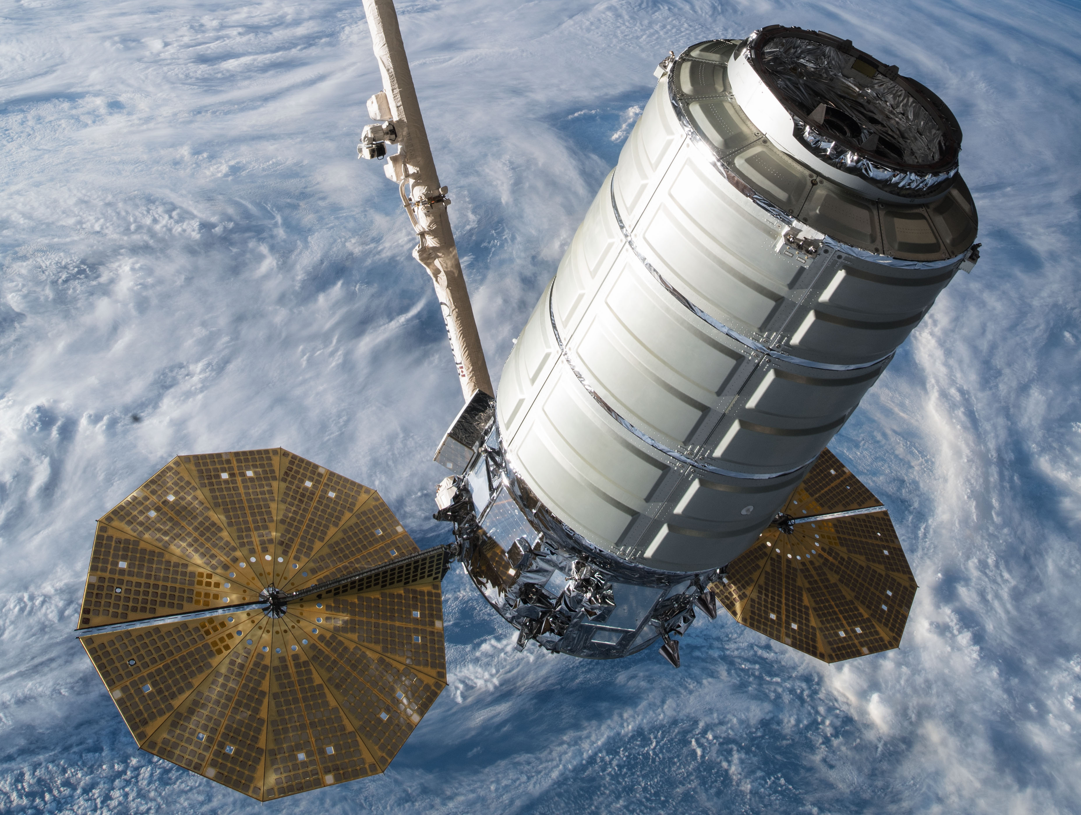 The Orbital ATK space freighter is slowly maneuvered by the Canadarm2 robotic arm toward the Unity module for installation on the International Space Station to resupply the Expedition 55 crew.